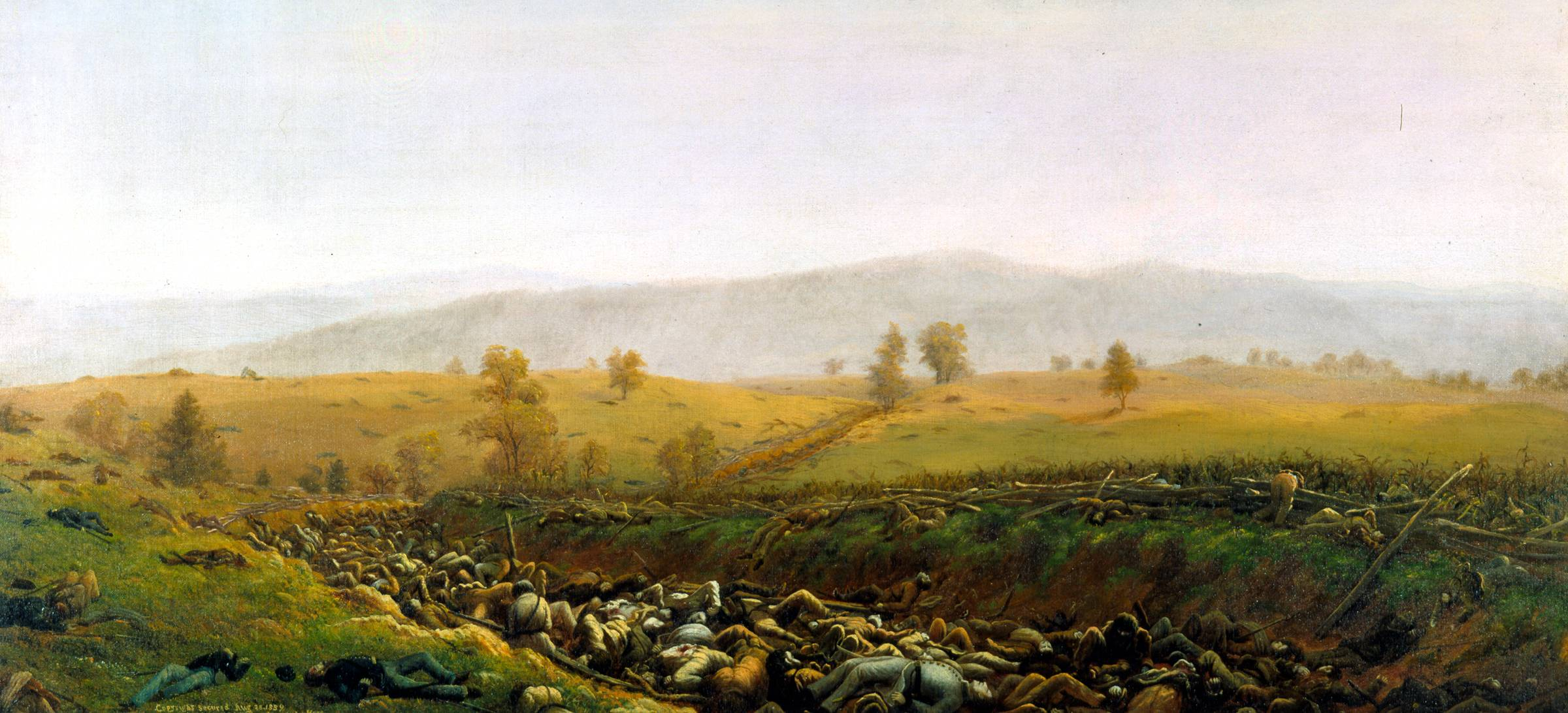 At the end of the day looking east across Bloody Lane. The center of Lee's defensive line—an 800-yard-long sunken road later called Bloody Lane—as it appeared following the midday battle. By 1:00 p.m., some 5,000 killed and wounded troops of both sides lay along this farm road.